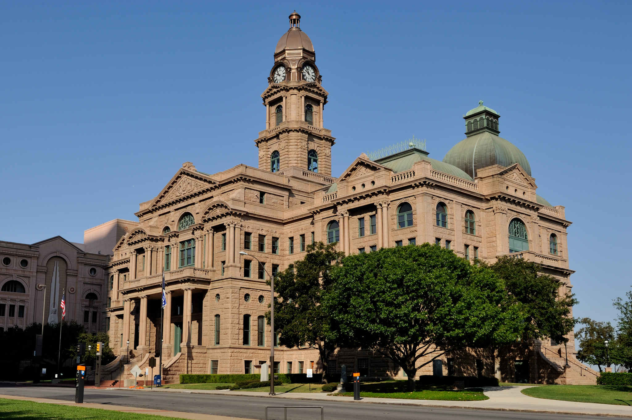 Tarrant County CourthouseThe Tarrant County Courthouse located in Fort Worth, Texas shortly after its renovation was completed in 2012. NRHP Ref 70000762.